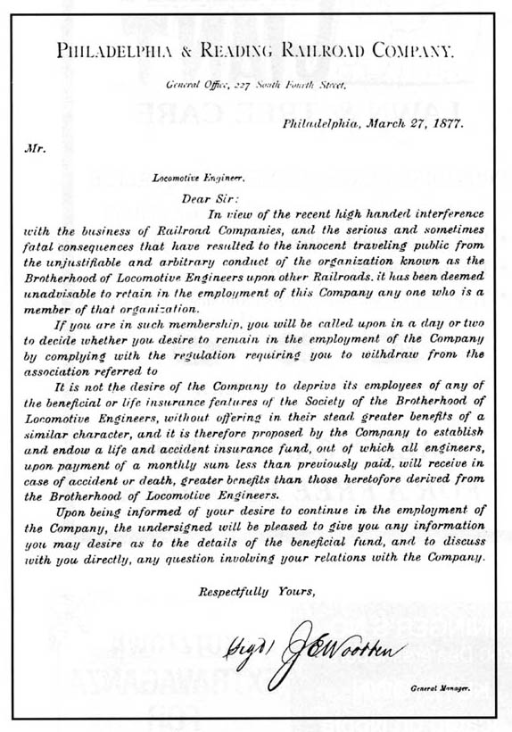 Letter from John E. Wootten, officially firing and blacklisting members of the Brotherhood of Locomotive Engineers, one of the events leading up to violence in Reading, PA in July of 1877